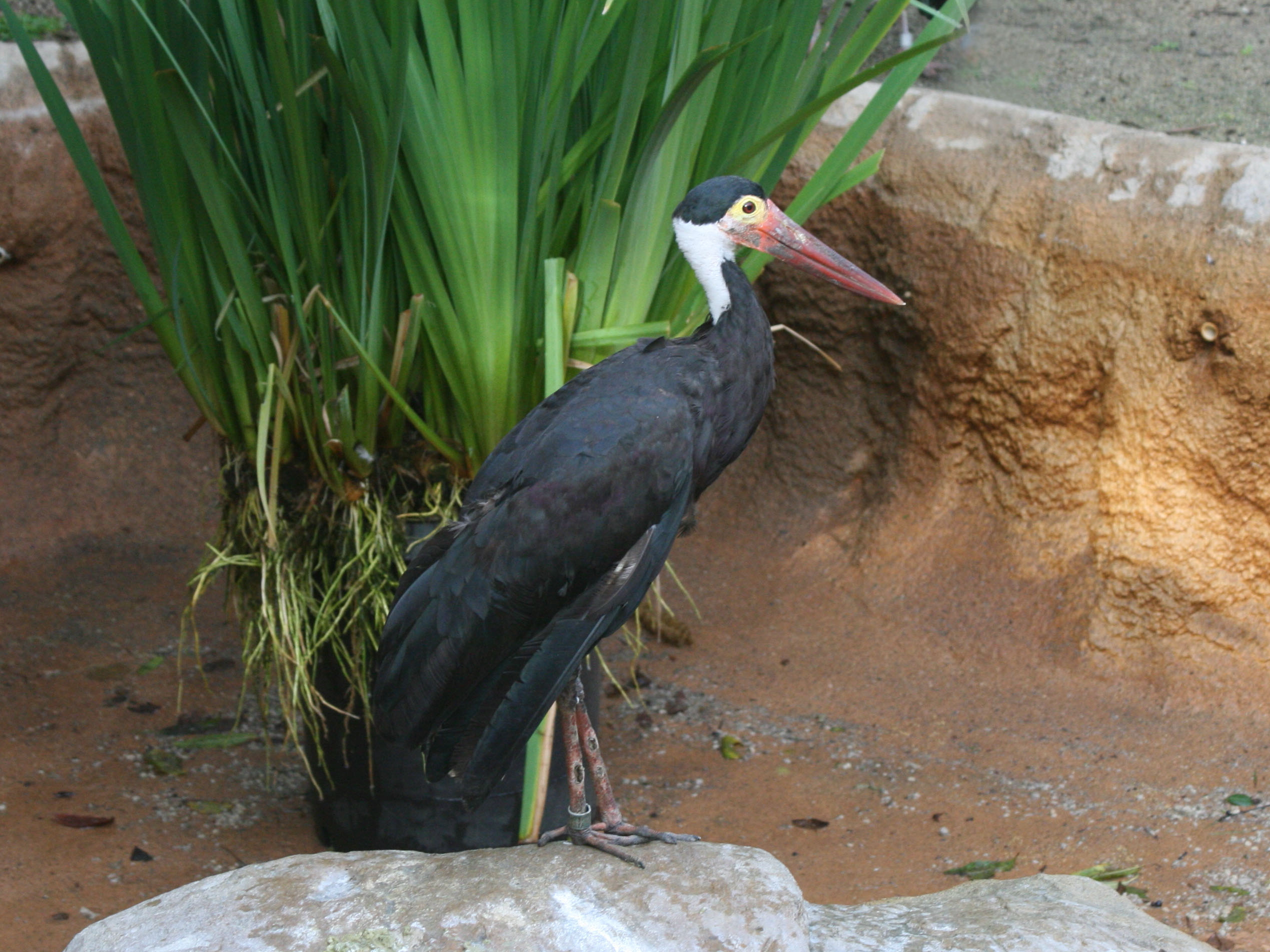 Storm's Stork (Ciconia stormi ) - San Diego Zoo